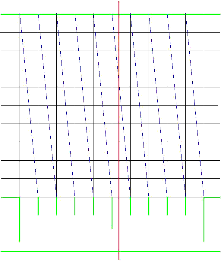 Linear transversals for scientific instruments